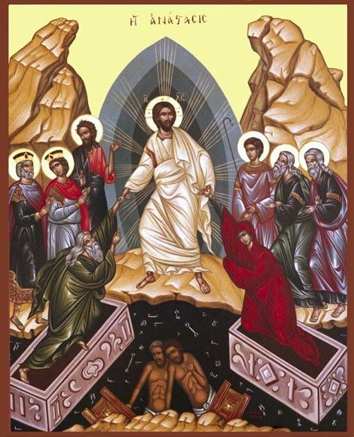 Resurrected Jesus visits Adam and Eve and thus they resurrects with Jesus. Many saints and apostles witnesses the event.